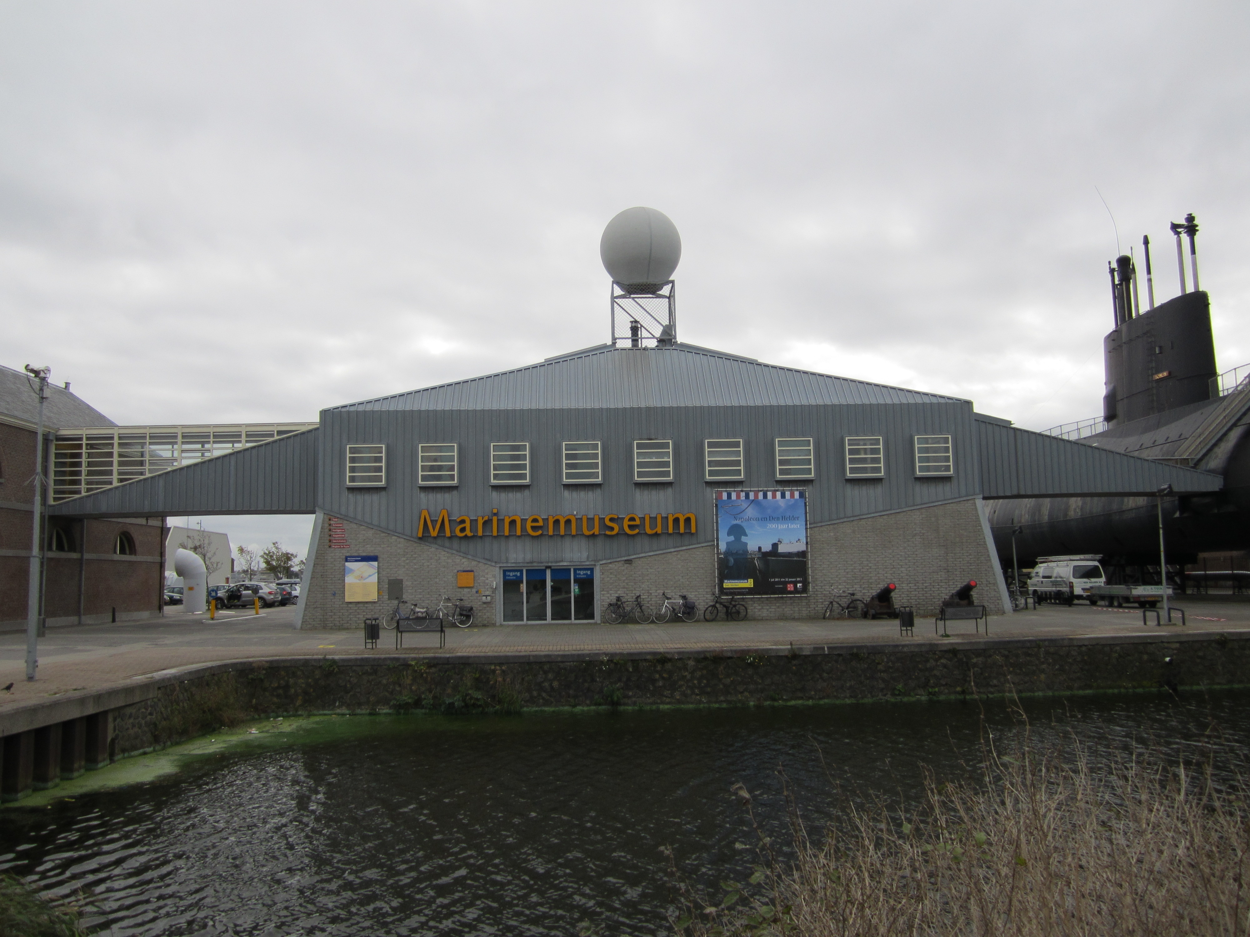 The orientation building at the Marinemuseum in Den Helder